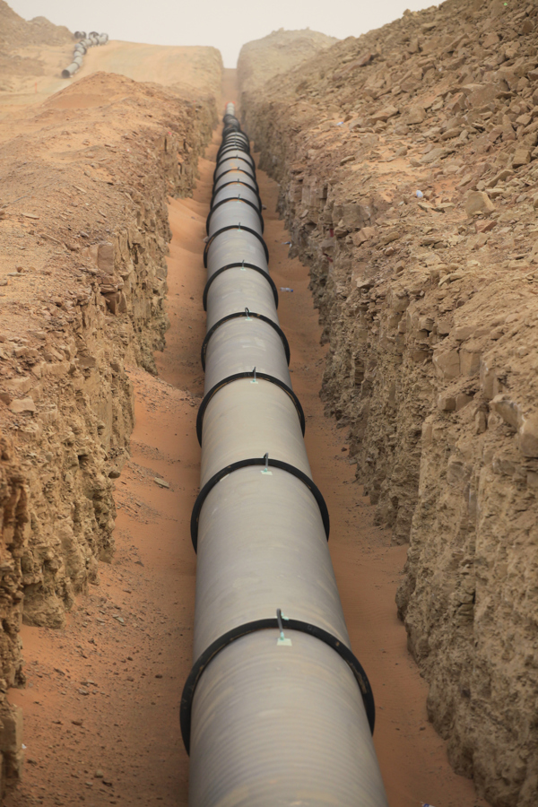 The Disi Water Conveyance Project pipeline being built to pump water from Underneath the rocks of Wadi Rum to Amman in Jordan. Photographer: Eddie Gerald